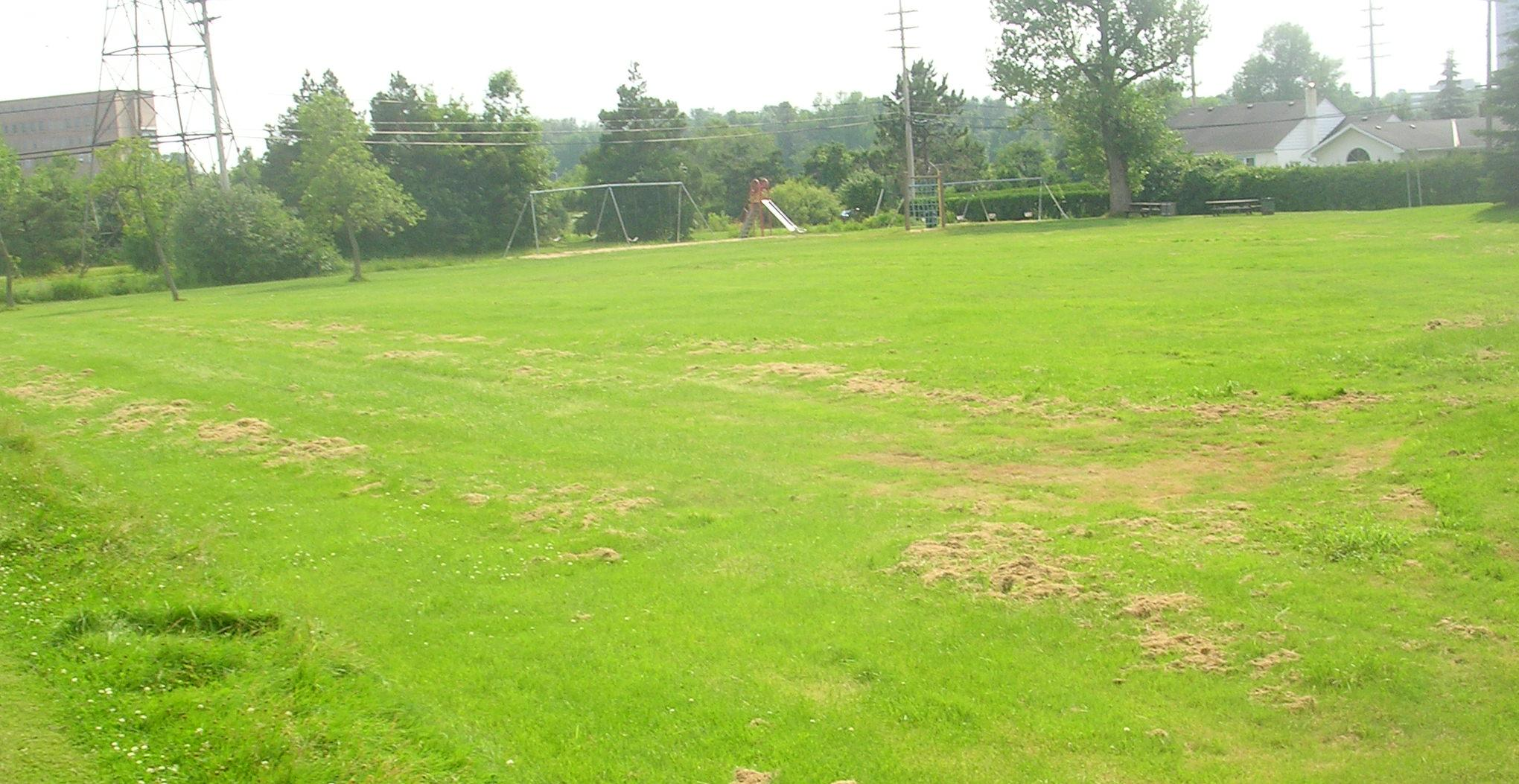 Riverview Park in Ottawa, Ontario, Canada